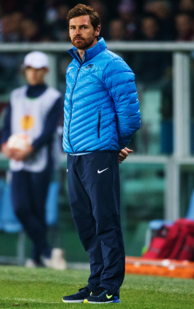 19.03.15. Италия, Турин, «Стадио Олимпико». Лига Европы УЕФА, 1/8 финала, «Торино» — «Зенит».